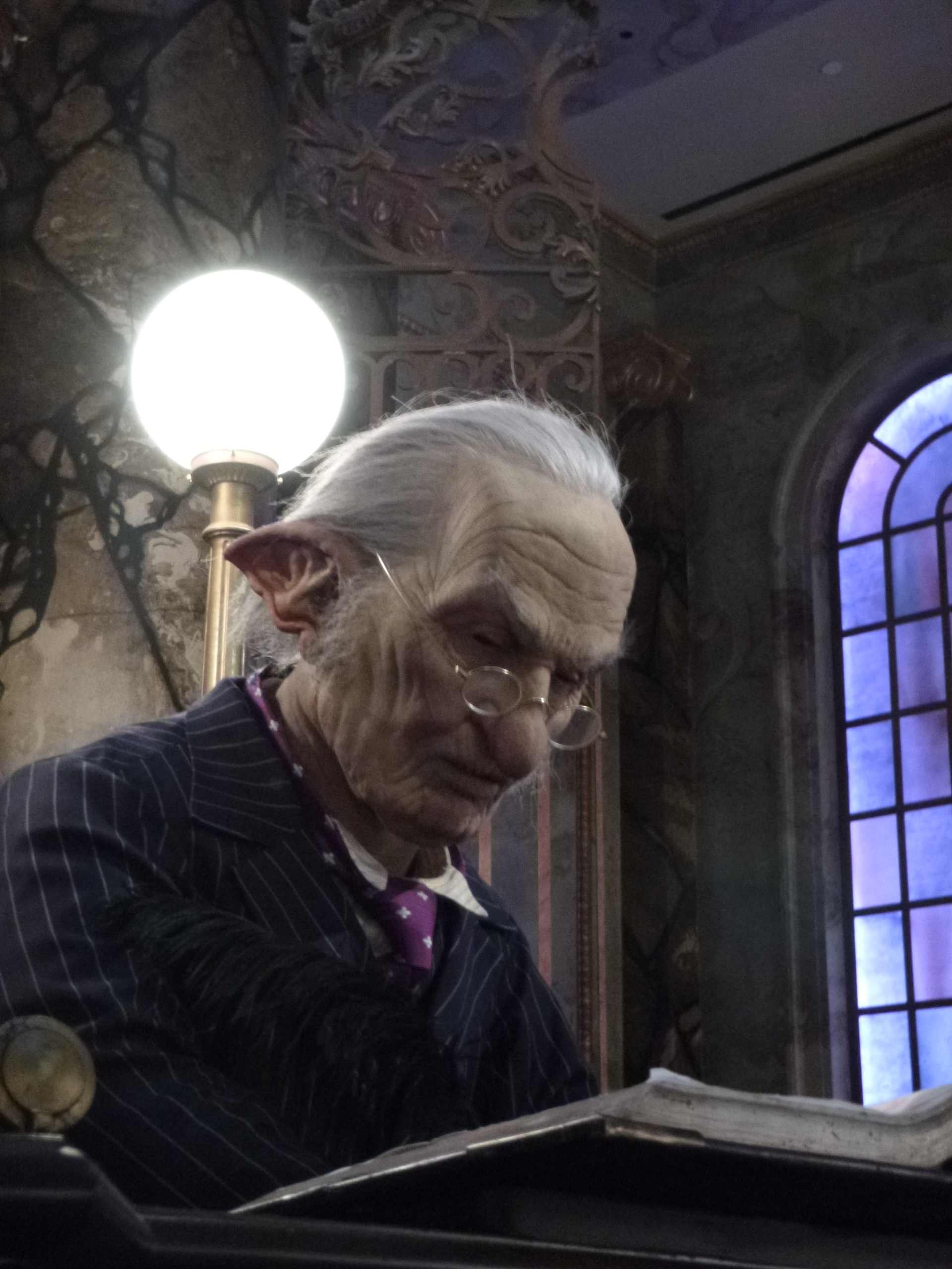 Audio-animatronic goblin at Gringotts Wizarding Bank, Harry Potter and the Escape from Gringotts